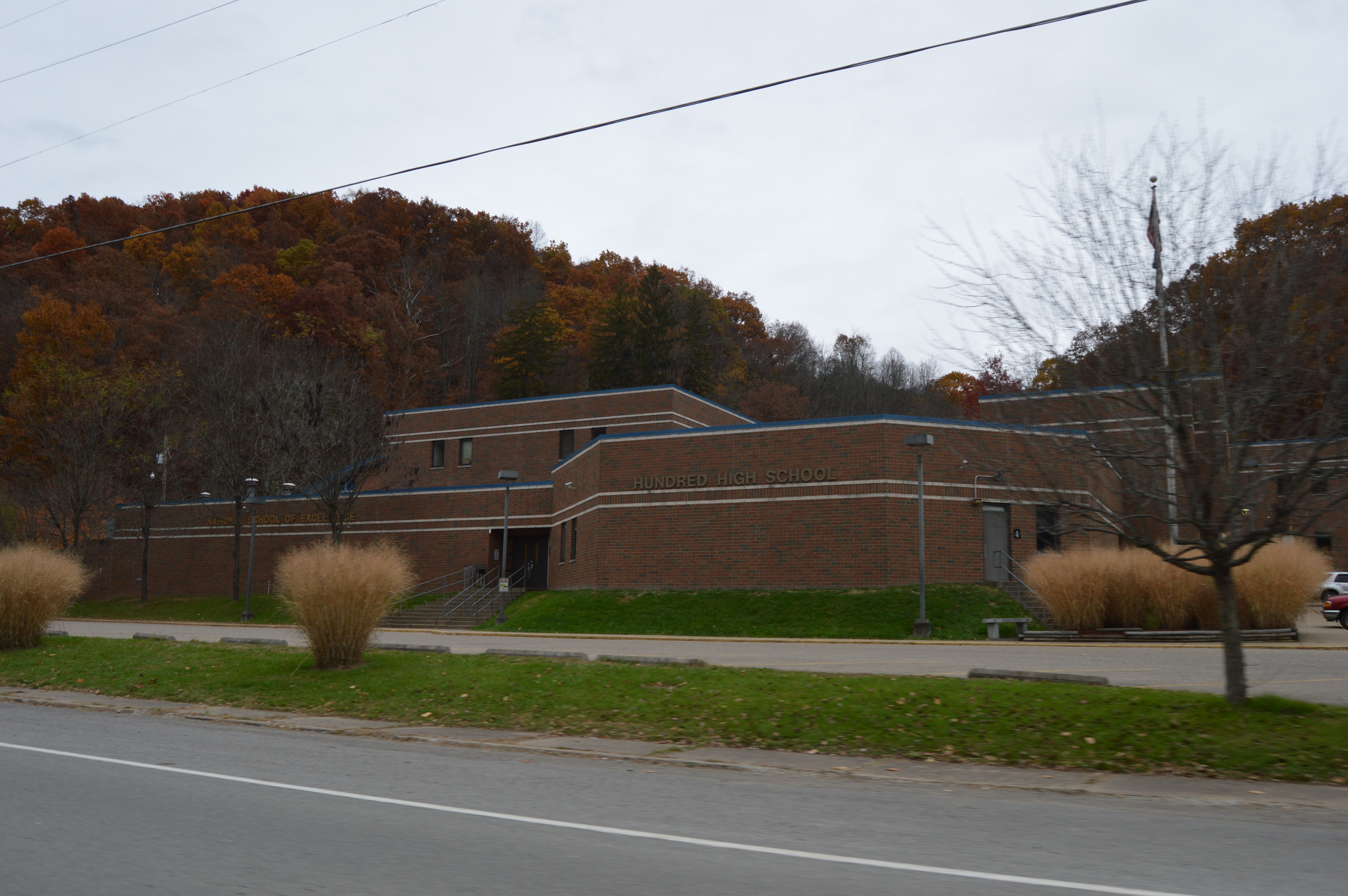 Front of the Hundred High School, located at 3490 U.S. Route 250 in Hundred, West Virginia, United States.